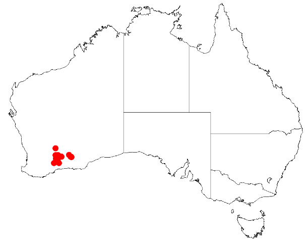 Acacia castanostegia Occurrence data from Australasia Virtual Herbarium downloaded from on 8 December 2018